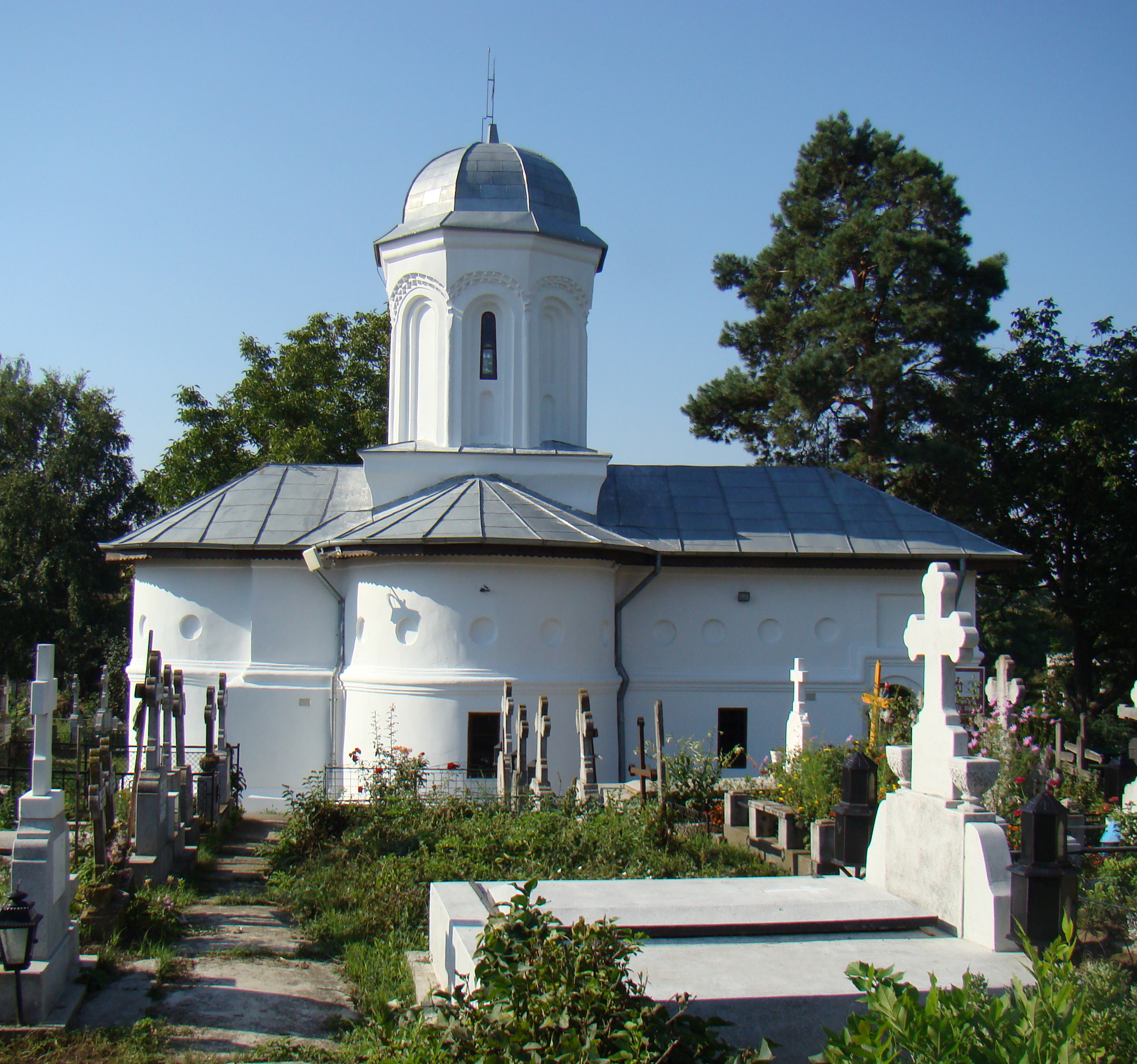 Saint Eliah Pipera Tataranu Church, Pipera, Ilfov County, Romania